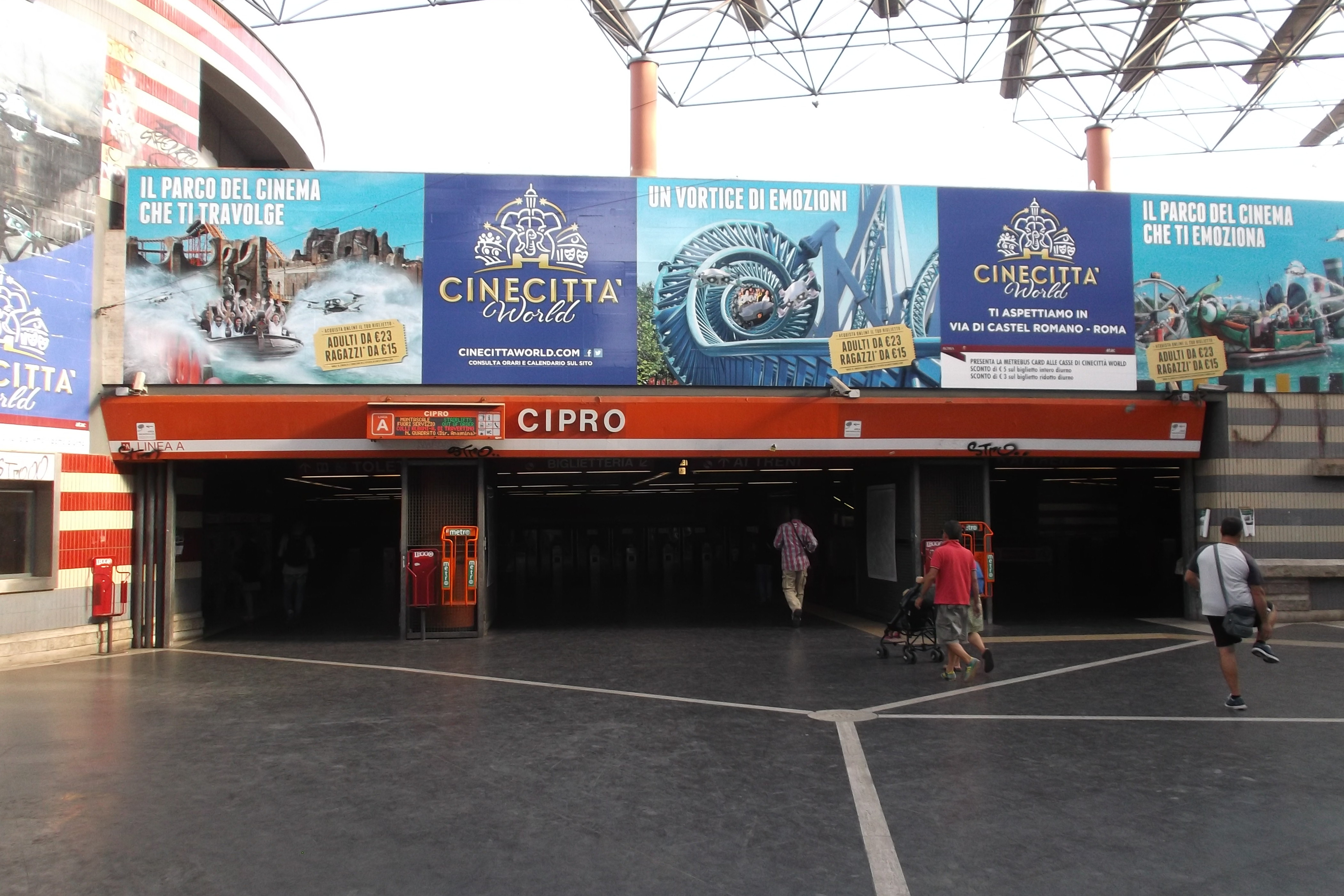 Entrance of Metro A station Cipro in Rome